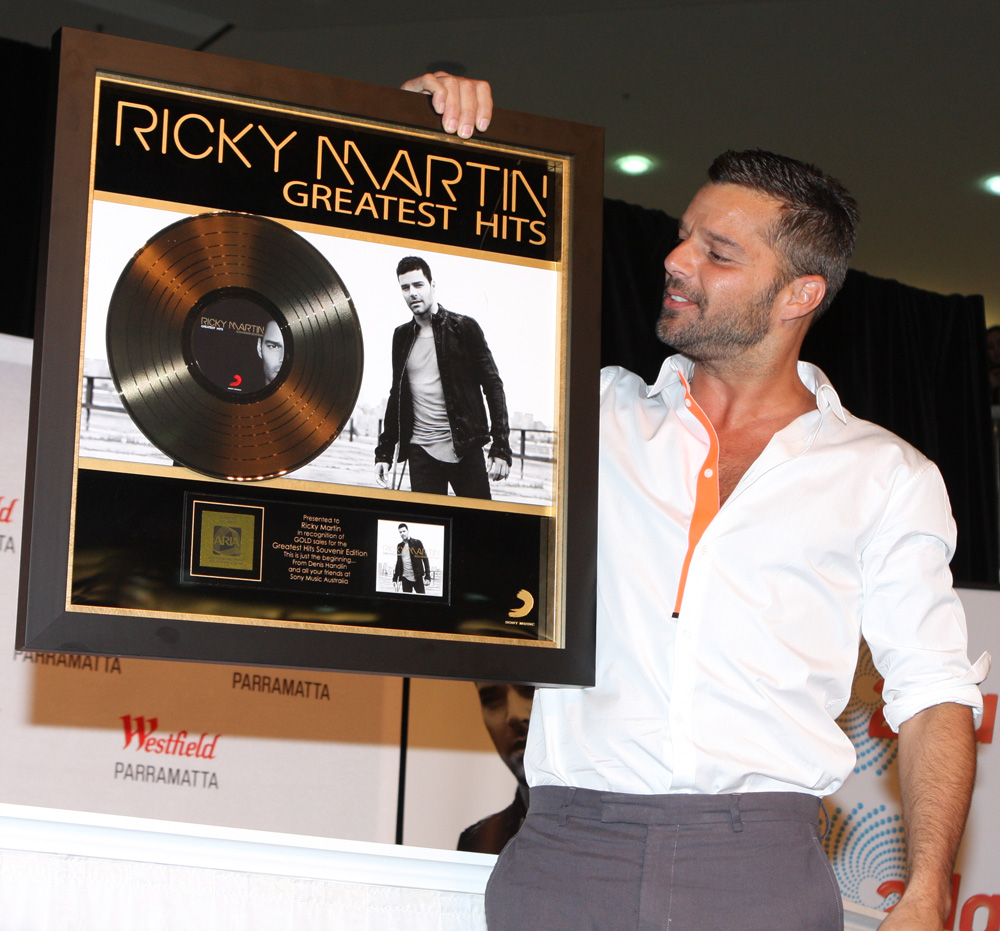 Ricky Martin makes in store appearance at Westfield Parramatta, Sydney, Australia - 9th May 2013 Westfield Parramatta was a mass of humanity, as the shopping centre turned into standing room only for popular Voice judge and living legend performing artist Ricky Martin. Frenzied fans spread across four floors of the shopping centre to see the Latino heartthrob during his two-hour appearance. The event was thought to be targeted at late-night mother’s day shoppers, however it was a mainly young crowd. Mr Martin made a secret entrance through a secured loading dock to hit the stage at 6pm sharp. The megastar was there to promote the "souvenir edition" of his Greatest Hits CD and DVD collections. Music News Australia photographers were on hand to capture the action. About two dozen security guards were brought in for crowd control along with dozens of police. Websites Ricky Martin official website Westfield Music News Australia Eva Rinaldi Photography